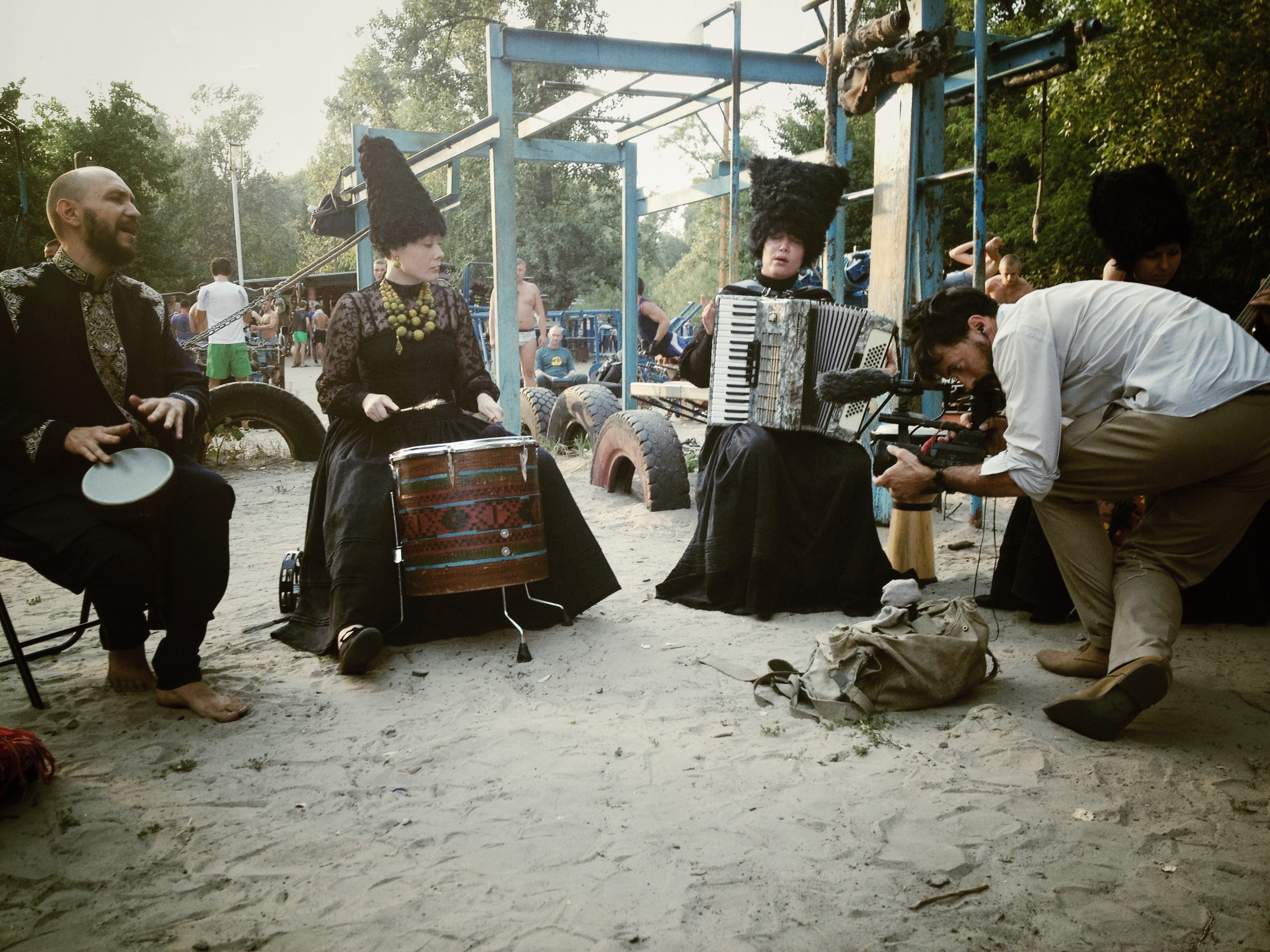 Vincent Moon photographed by eugene shimalsky in 2012